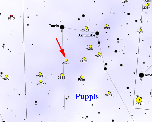 Map of NGC 2527